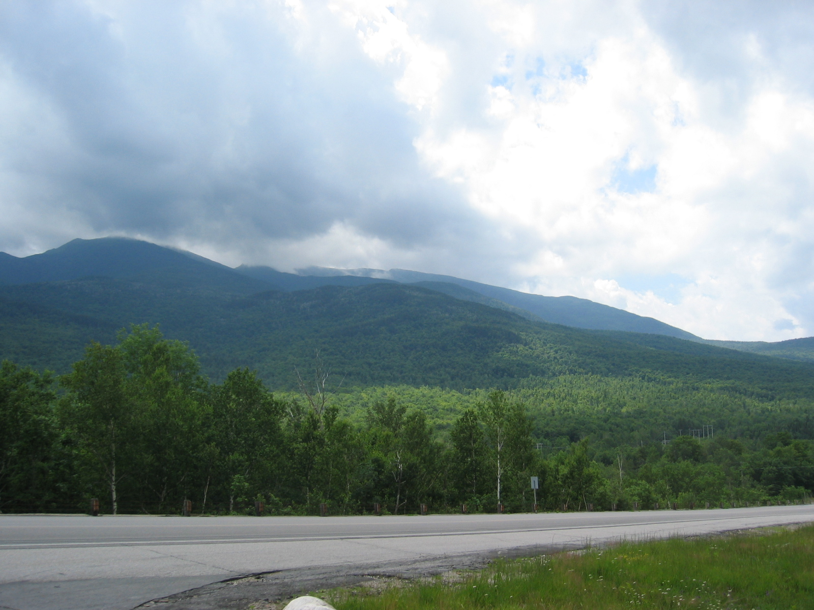 U.S. Route 2 in Vermont.